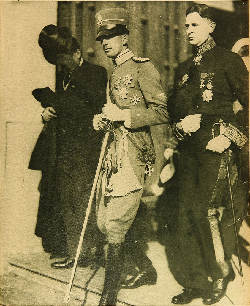 Prince Umberto of Savoy (later King Umberto II of Italy) during his state visit to Chile in 1924.